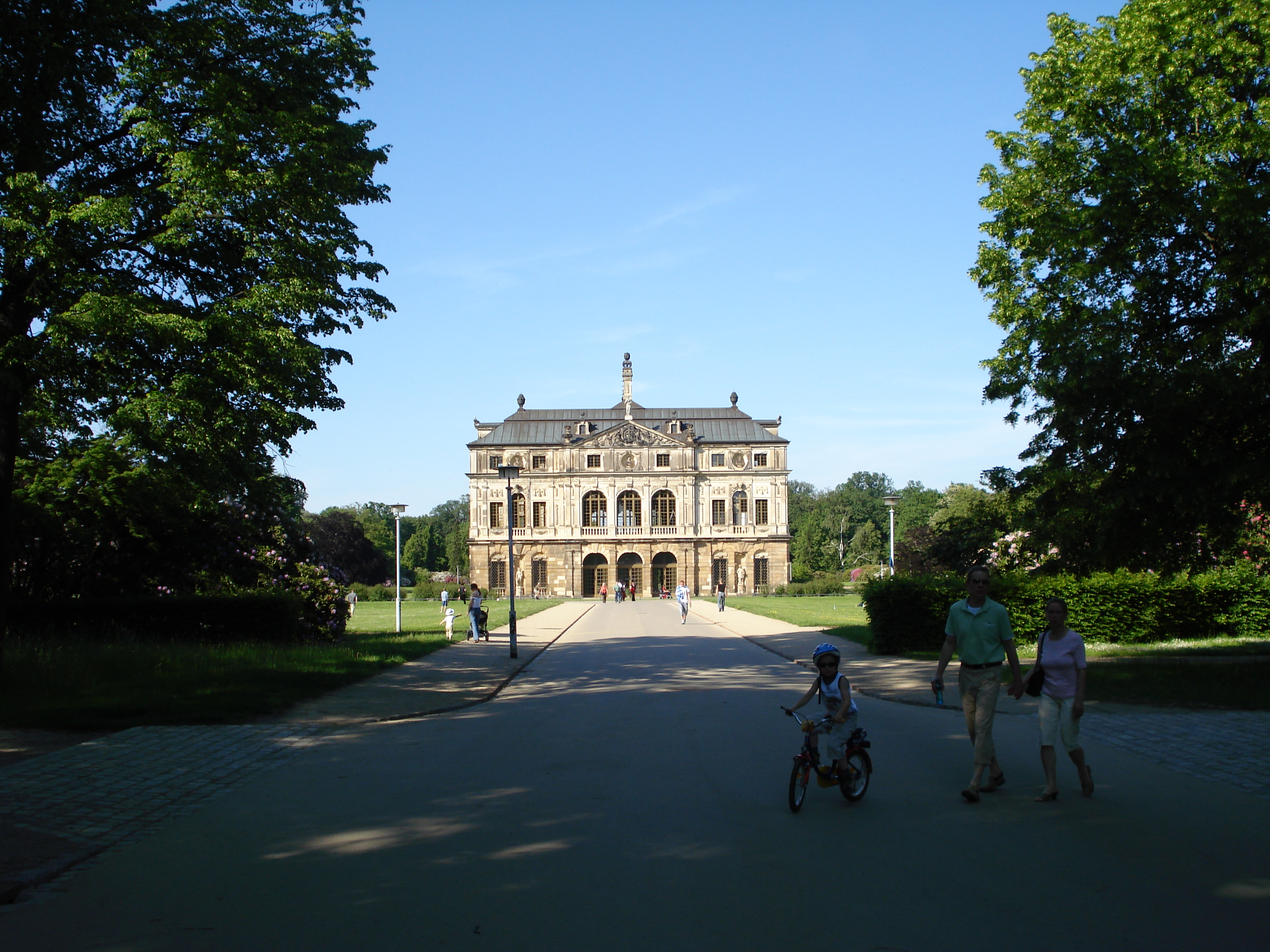 Palace in the City Park of Dresden (Großer Garten)